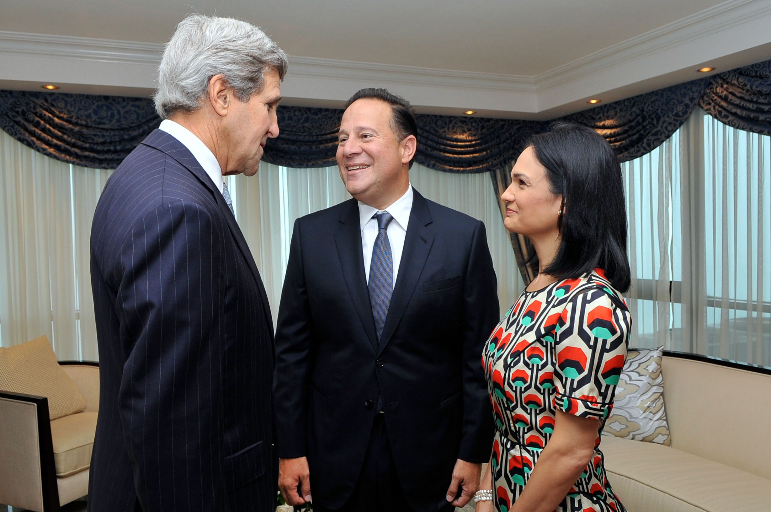 U.S. Secretary of State John Kerry chats with Panamanian President-Elect Juan Carlos Varela and Vice President-Elect Isabel Saint Malo at the outset of a bilateral meeting before Varela's inauguration in Panama City on July 1, 2014.